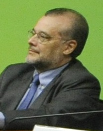 The Brazilian economist, Gustavo Franco, at the seminar "Paths to Brazil", promoted by Instituto Teotônio Villela and PSDB.